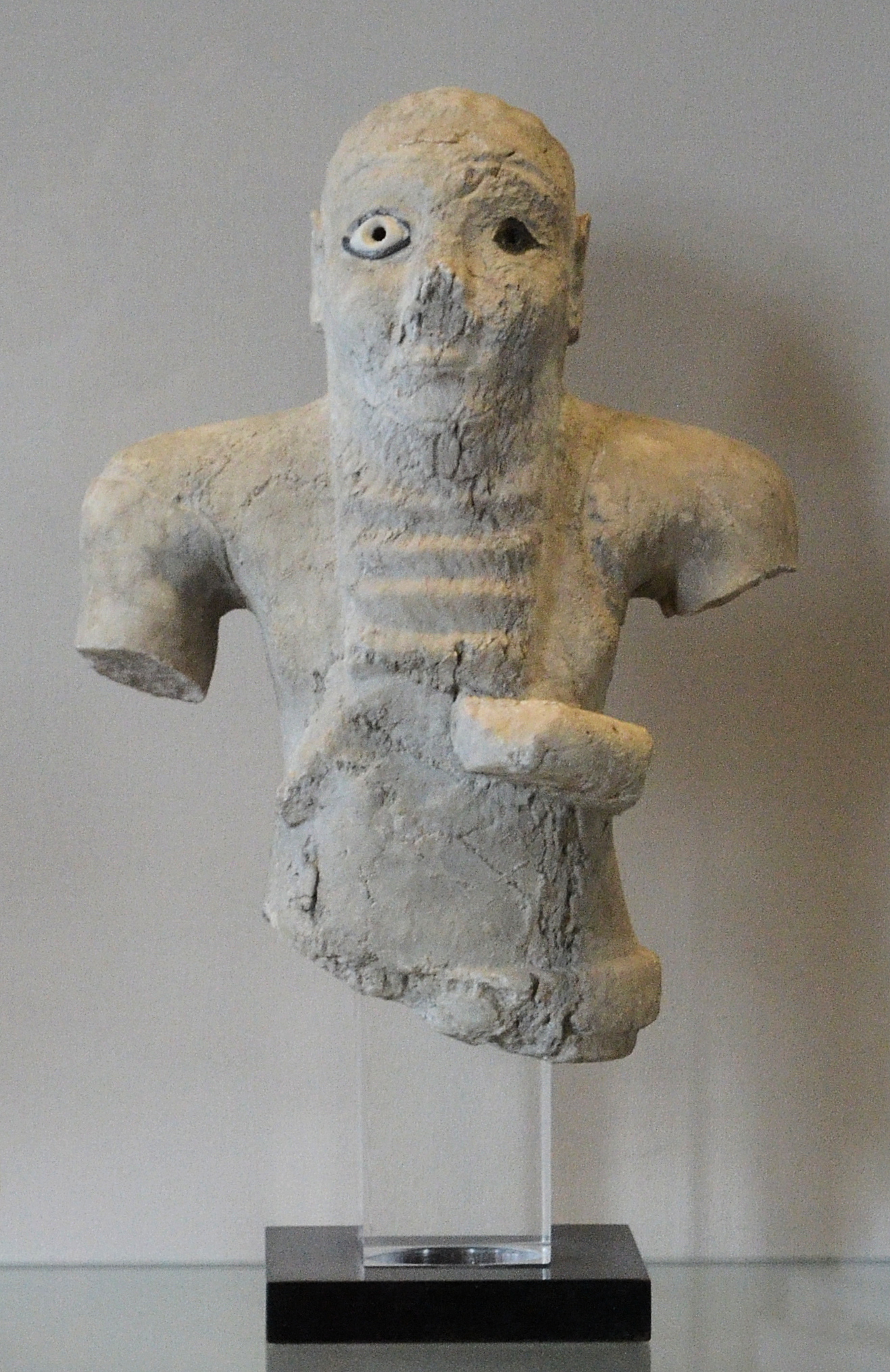 Archaic Mesopotamian statue of an orant dated to circa 2700 BCE, rededicated by Eshpum, governor de Susa and vassal the king of Akkad, Manishtusu (2275-2260 BCE), to Elamite goddess Narundi. Found in Susa (Photograph) [1] Inscription: 1. ma-an-isz-tu-su 2. _lugal_ 3. _kisz_ 4. esz18-pum 5. ARAD2-su 6. a-na 7. {d}na-ru-ti 8. _a mu-na-ru_ " [2][3]